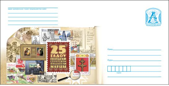 25th anniversary of the first Belarusian postal stamp.